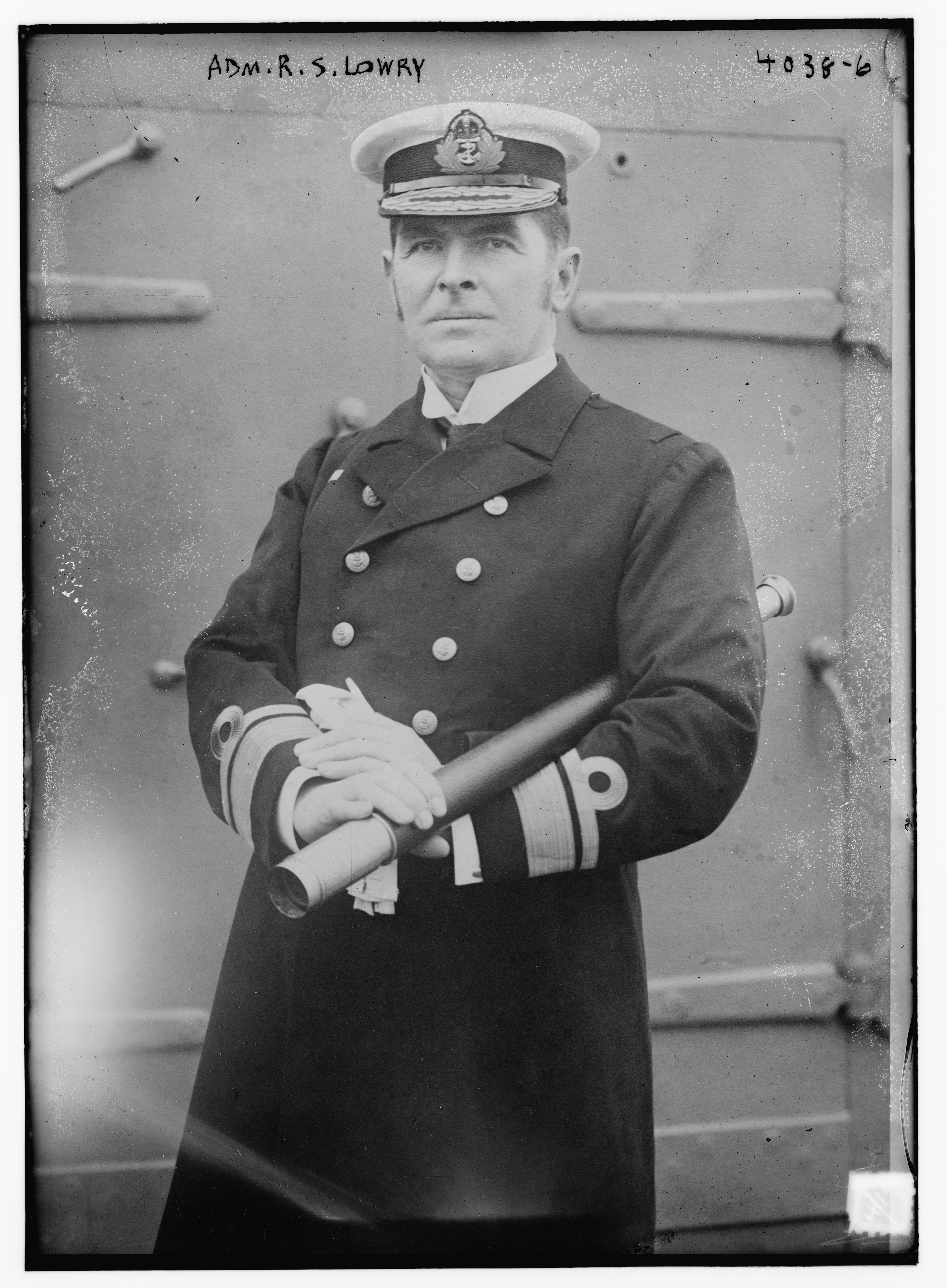 Robert Lowry (Royal Navy officer) in 1916